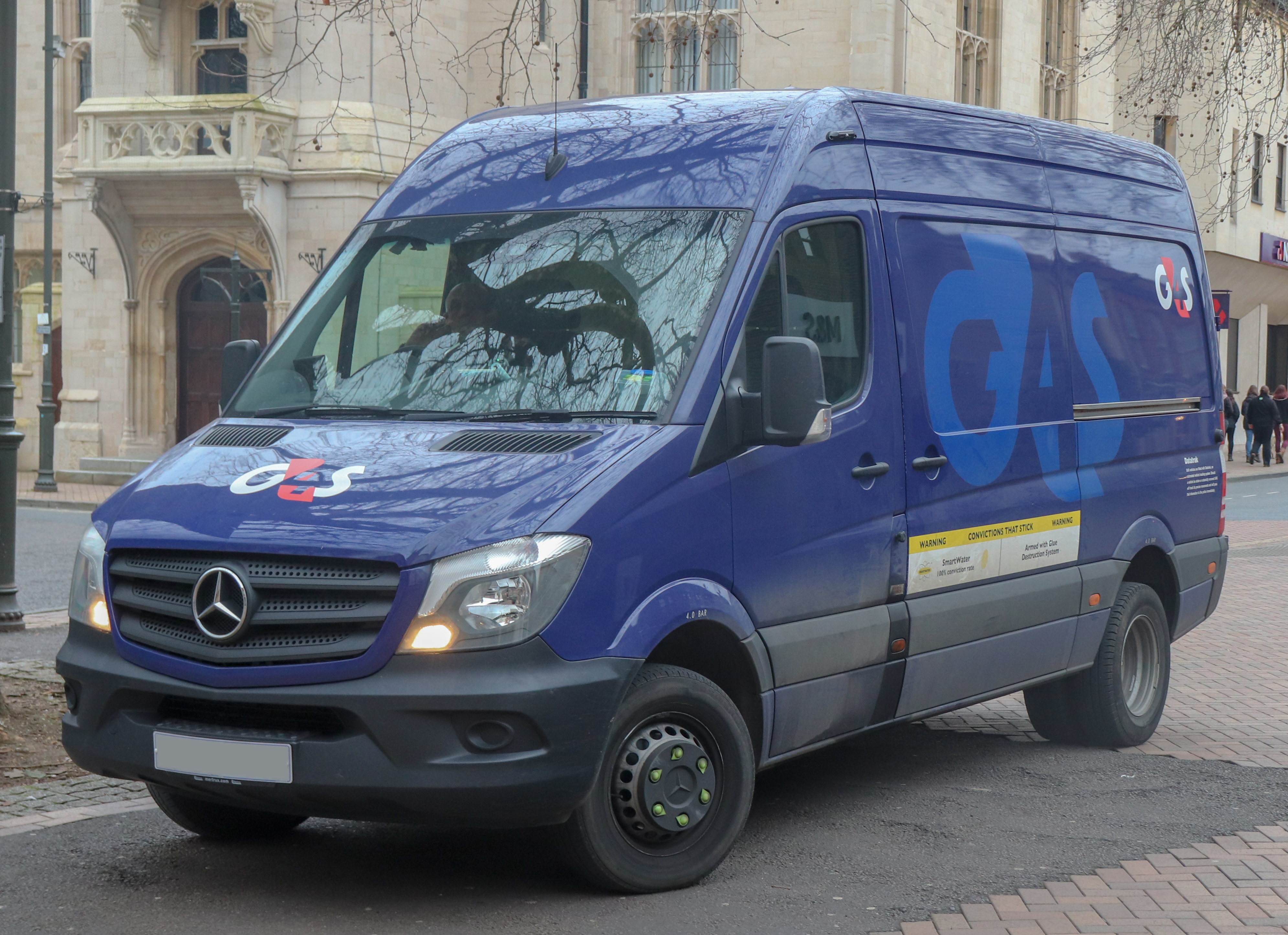 2017 Mercedes-Benz Sprinter 513 CDi 2.1 (G4S Van) Front Taken in Banbury, Oxfordshire